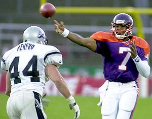 Michael Bishop, quarterback of the Frankfurt Galaxy, throwing against the Scottish Claymores on Armed Forces Day, 2001.